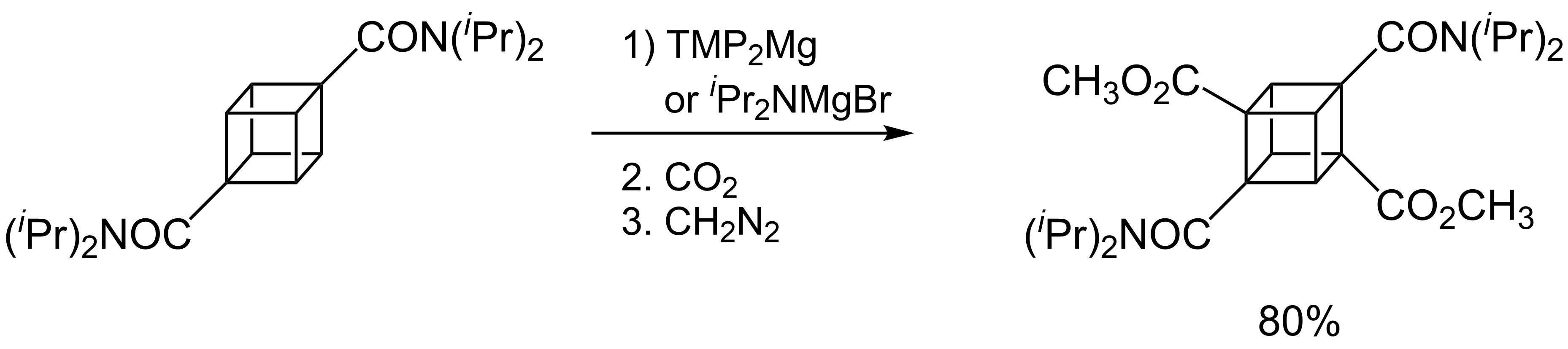 α-magnesiation of a carboxamide with TMP2Mg or iPr2NMgBr followed by the subsequent reaction with CO2 and CH2N2.